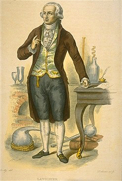 Antoine-Laurent Lavoisier. Line engraving by Louis Jean Desire Delaistre, after a design by Julien Leopold Boilly.